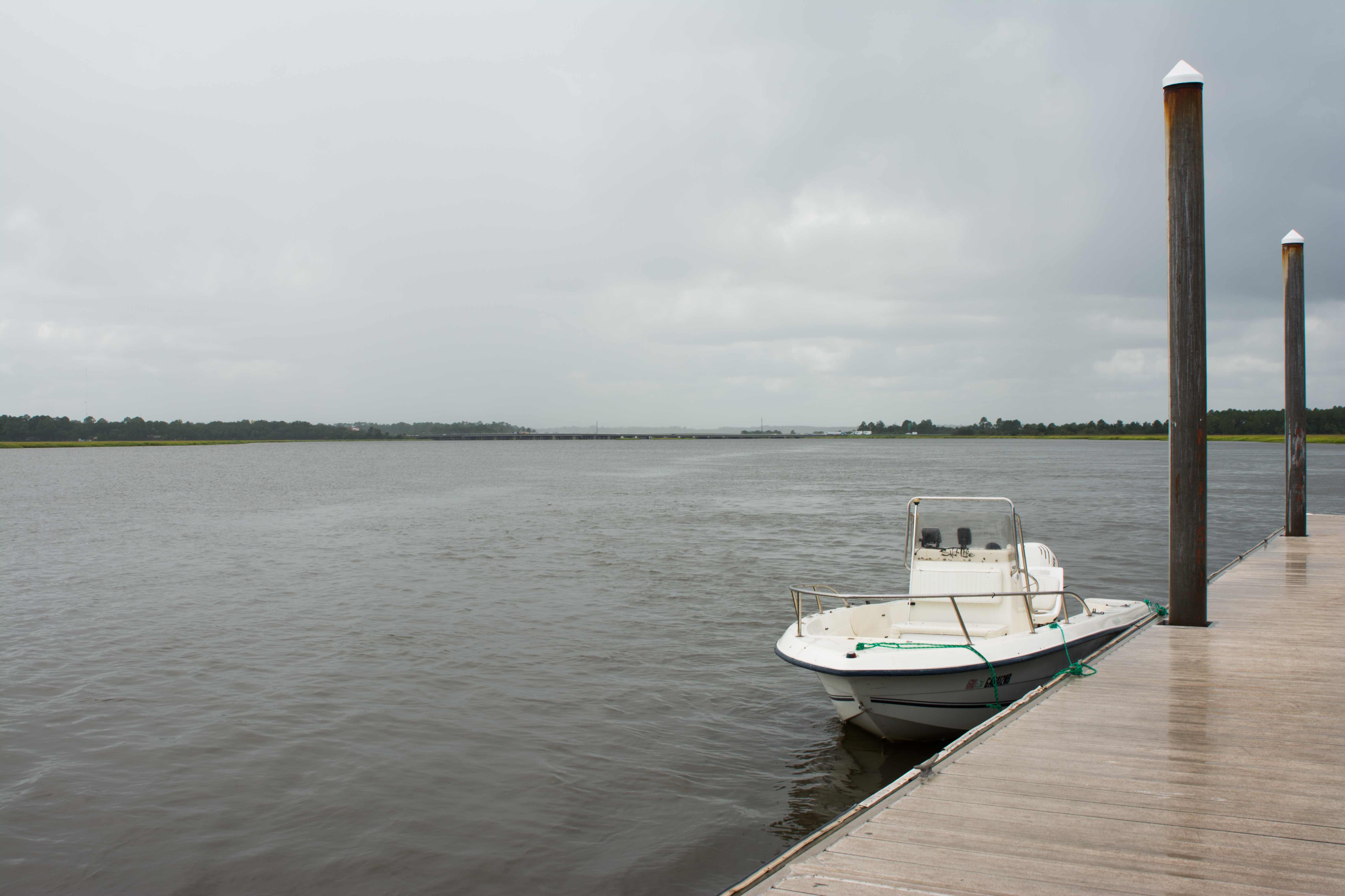 The Turtle River in Glynn County, Georgia, U.S. This is at the Georgia Department of Natural Resources boat ramp on Blythe Island. The bridge over the river for I-95 is in the distance.